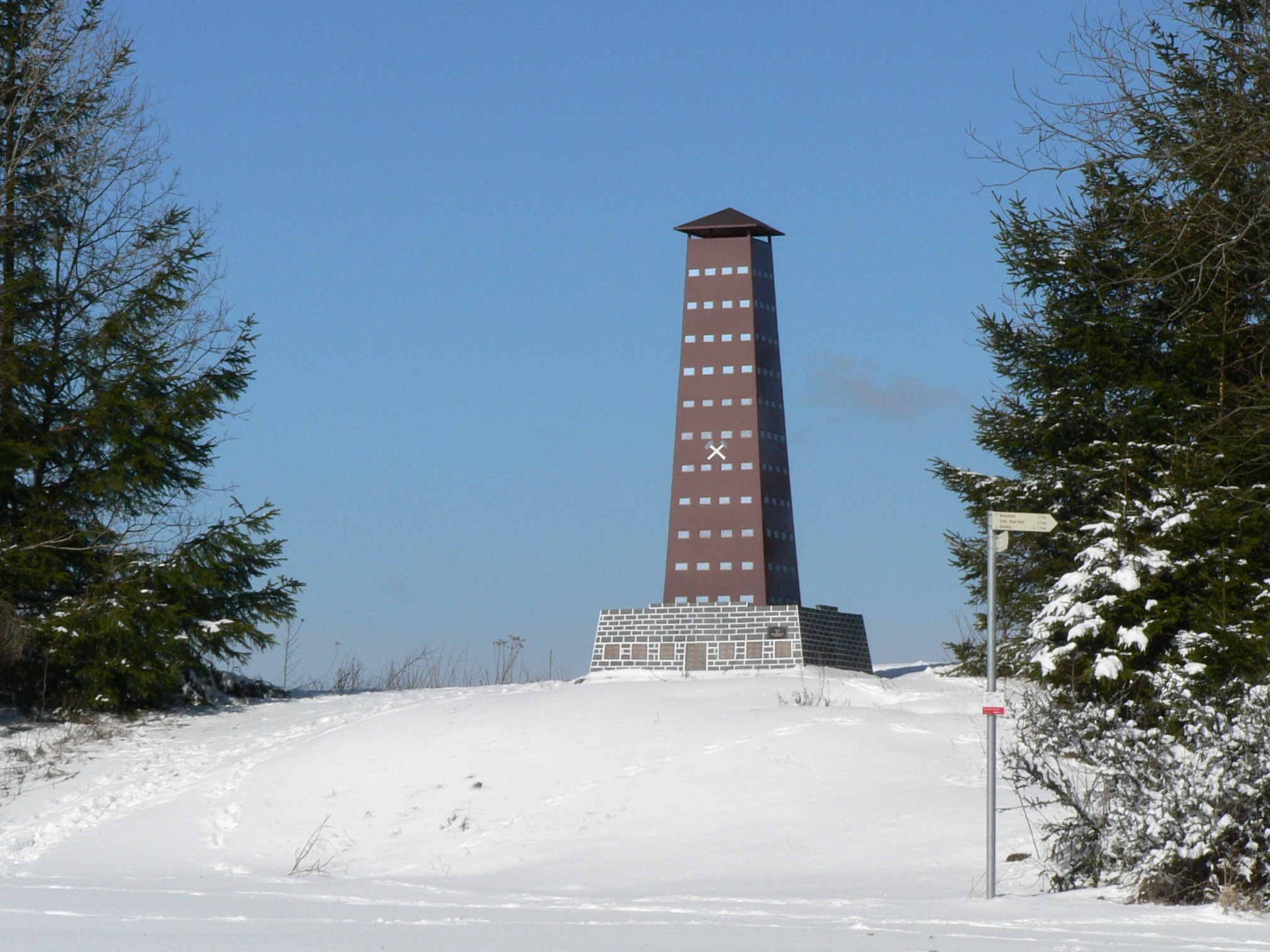 Model of the Eschenburg tower in Germany